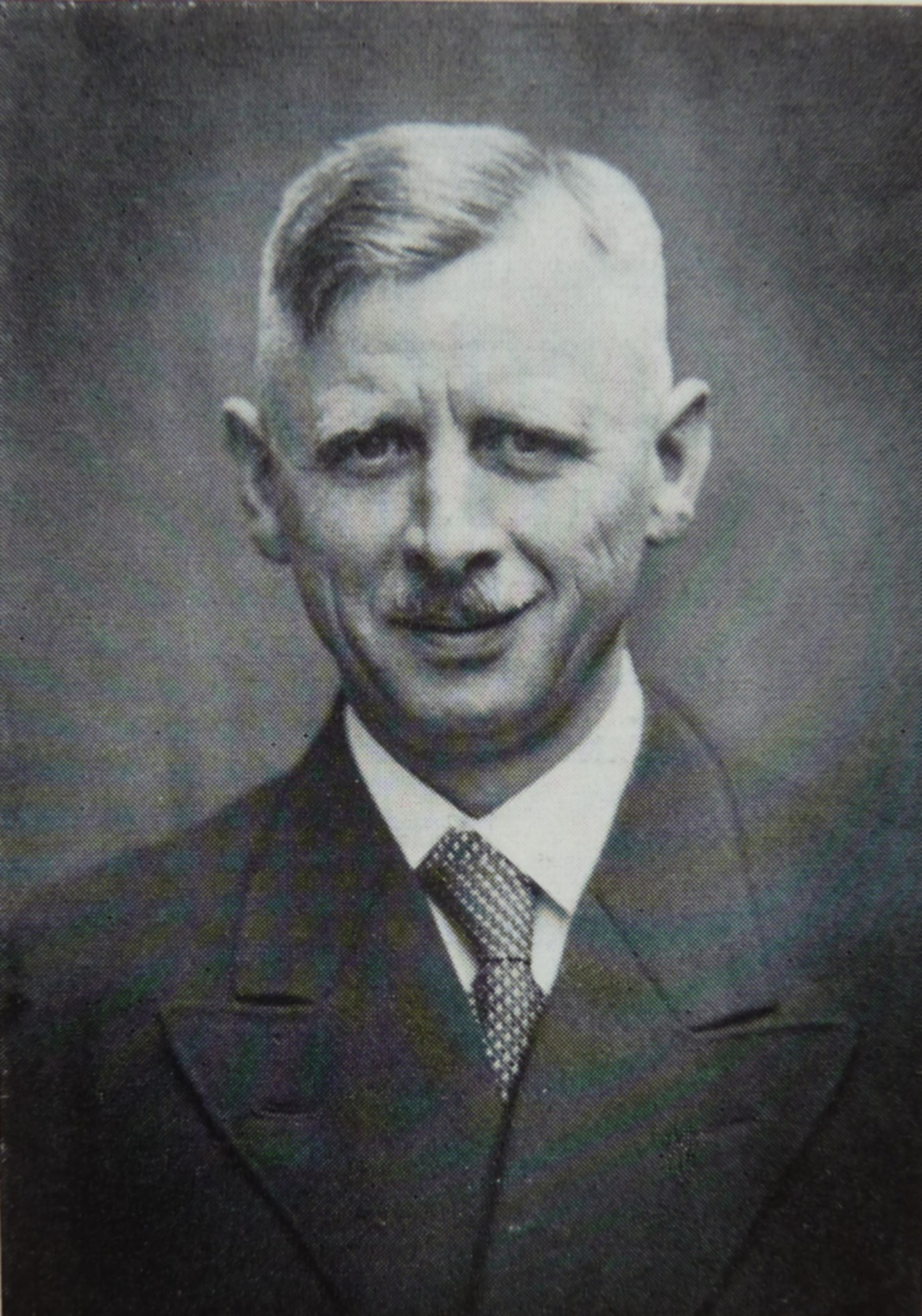 Friedrich Wilhelm Ande, German schoolteacher and historian, victim of Nazi terror